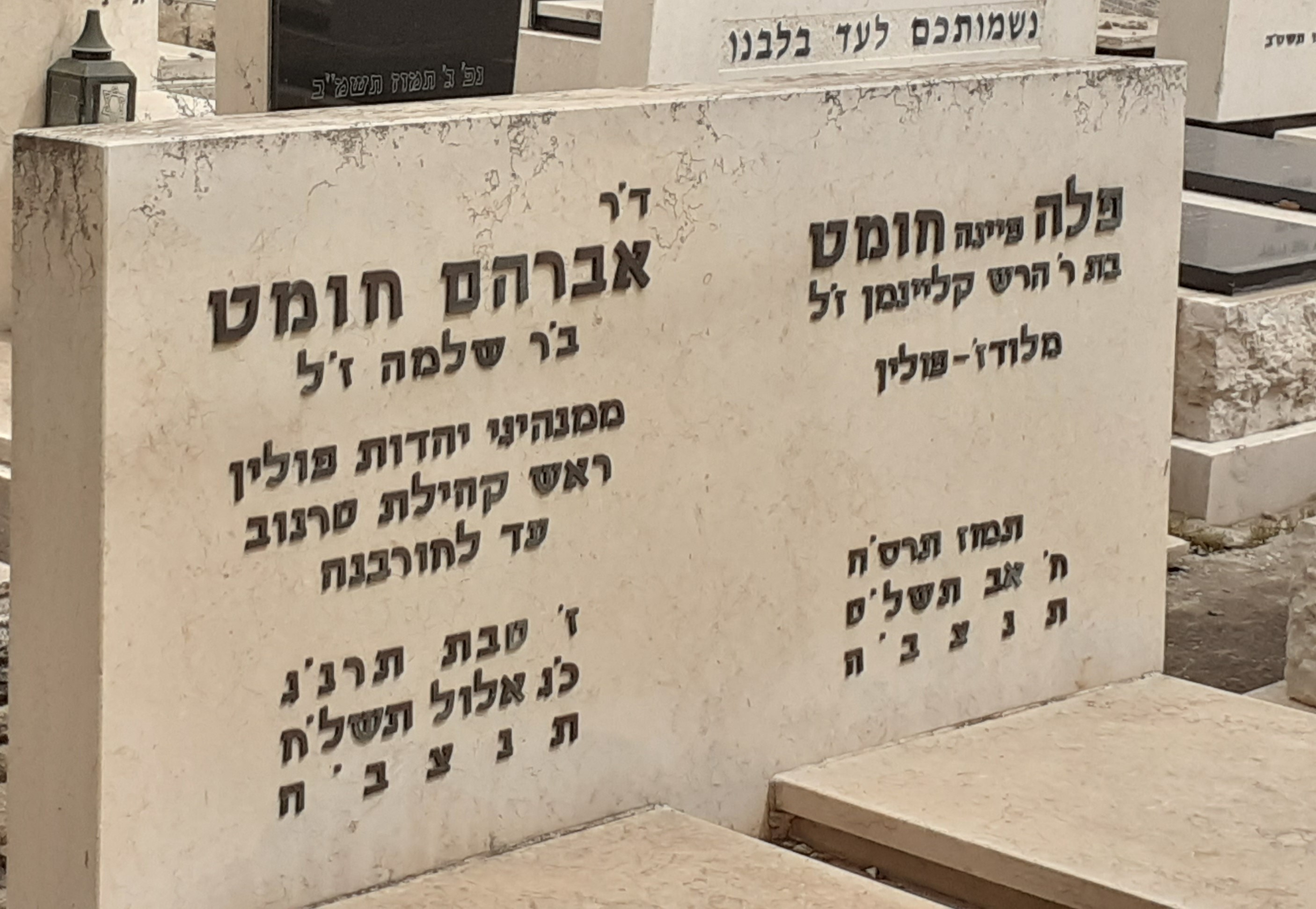 Gravestone of Avraham Homet